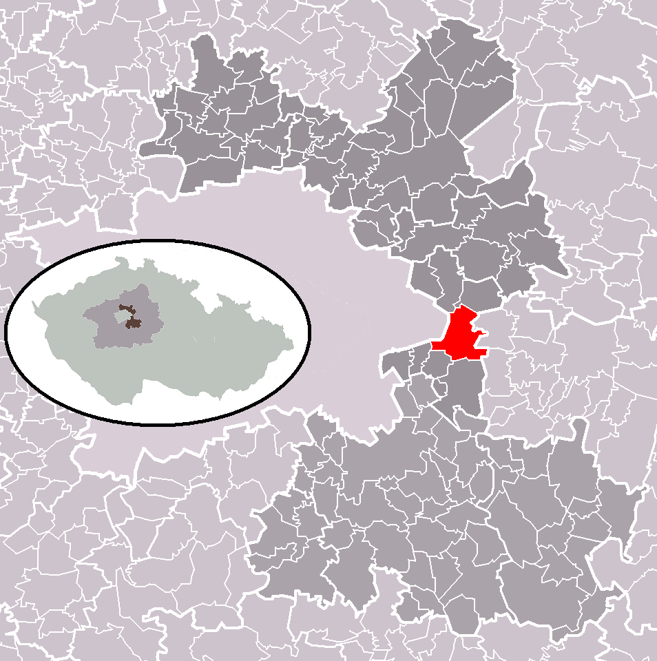 Location of Úvaly town within Prague-East District and administrative area of Brandýs nad Labem-Stará Boleslav as a Municipality with Extended Competence.